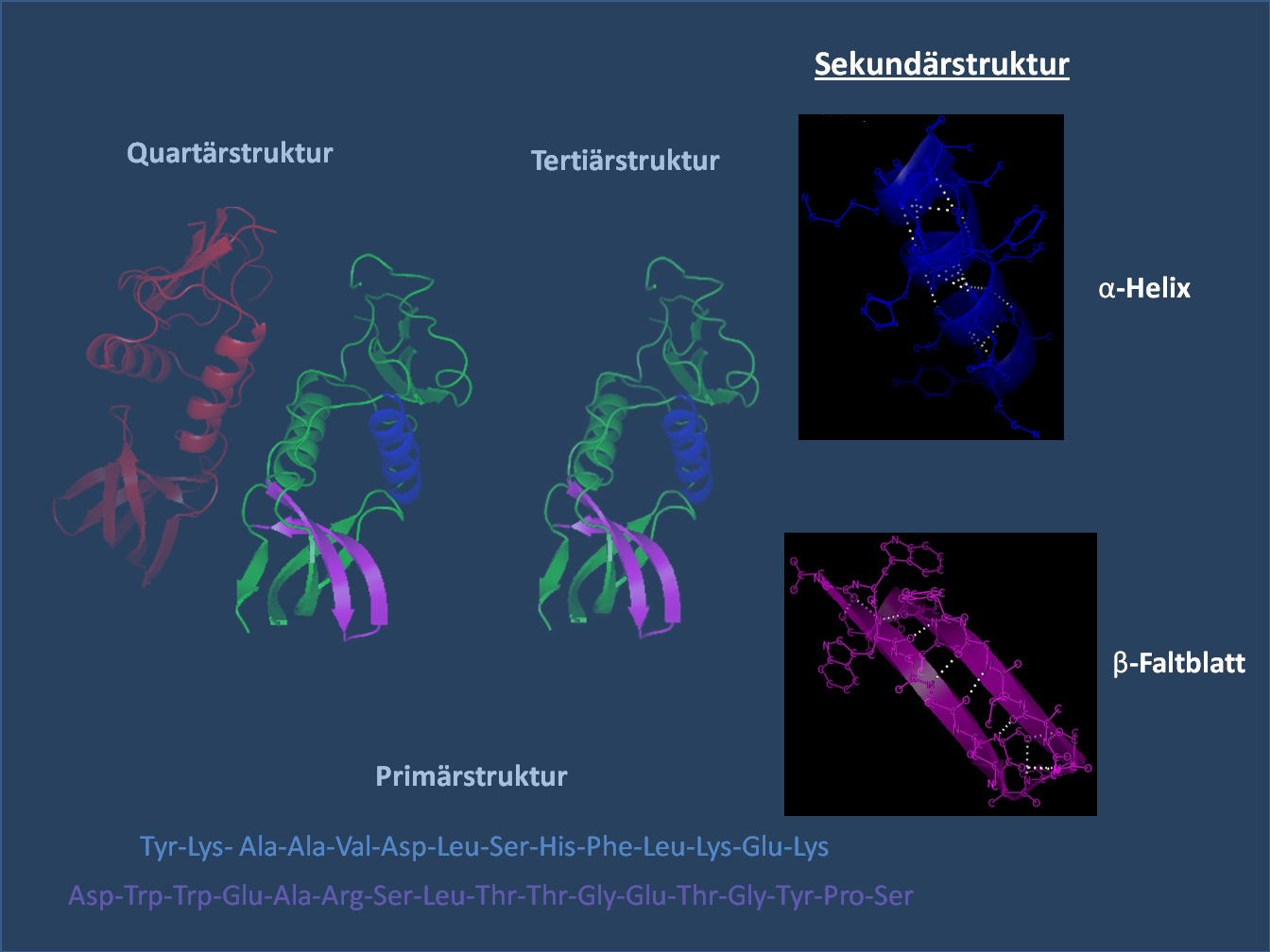 Faltung des Proteins 1EFN mit Fokus auf die Sekundärstruktur